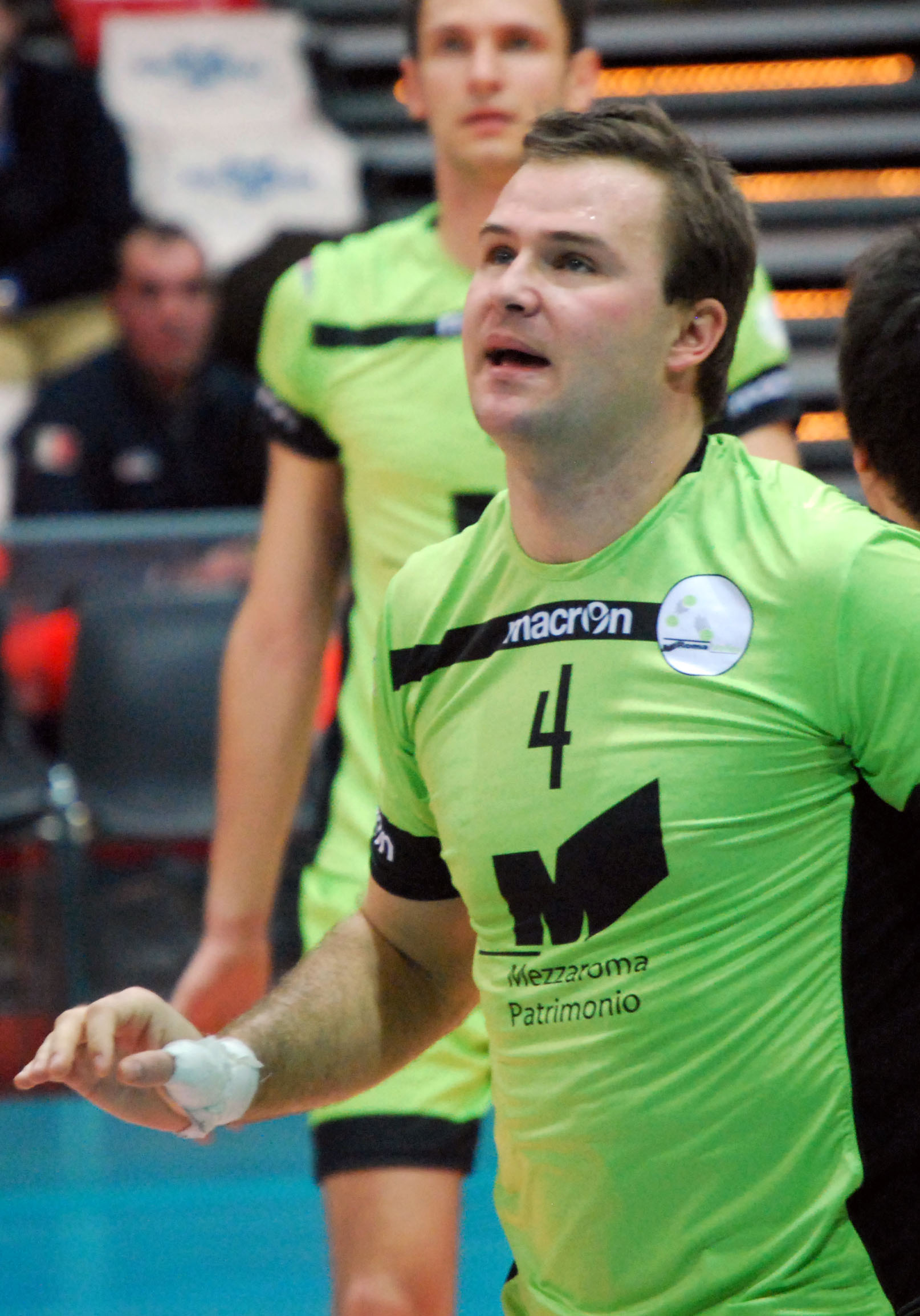 I took this pic during a volleyball match in Piacenza